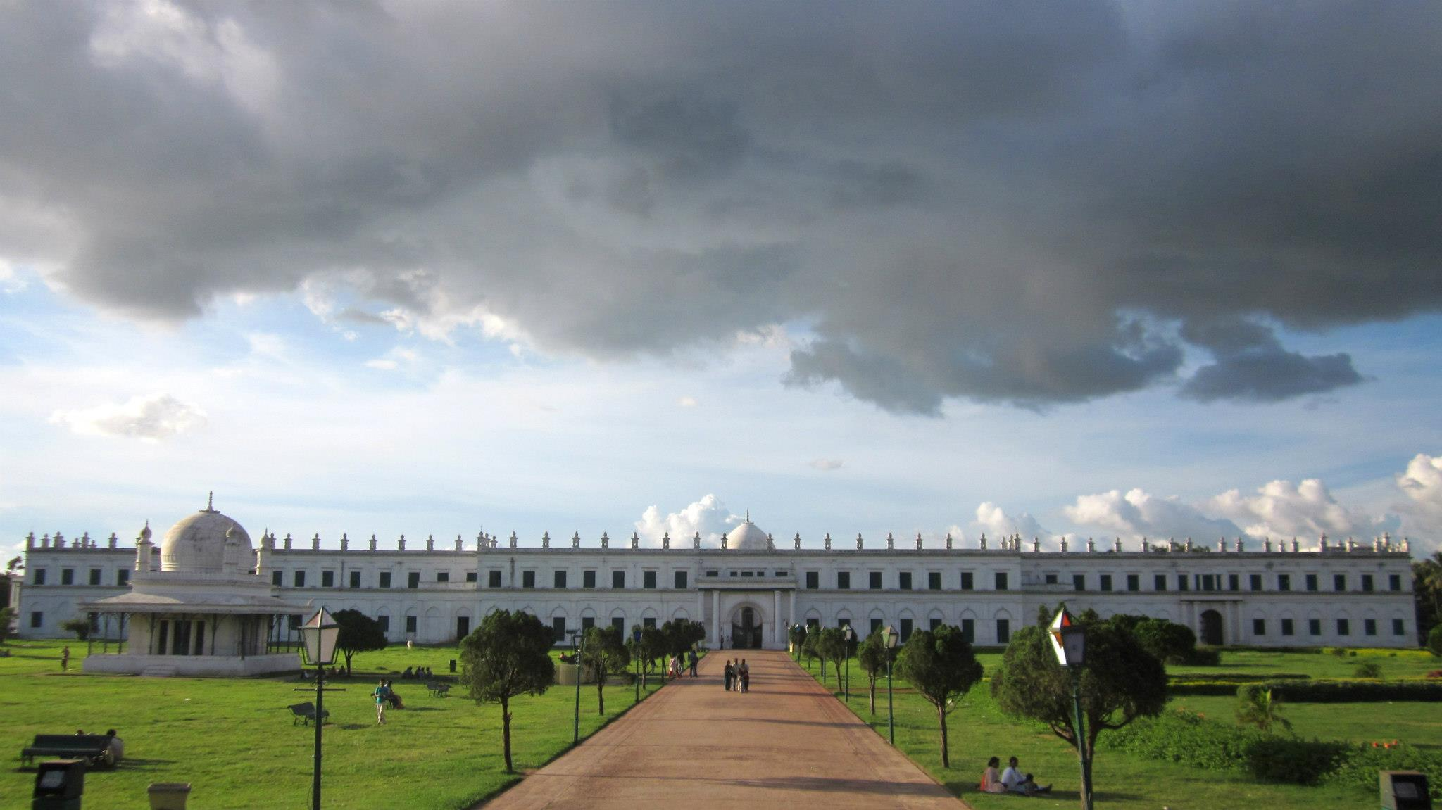 Front view of Nizamat Imambara